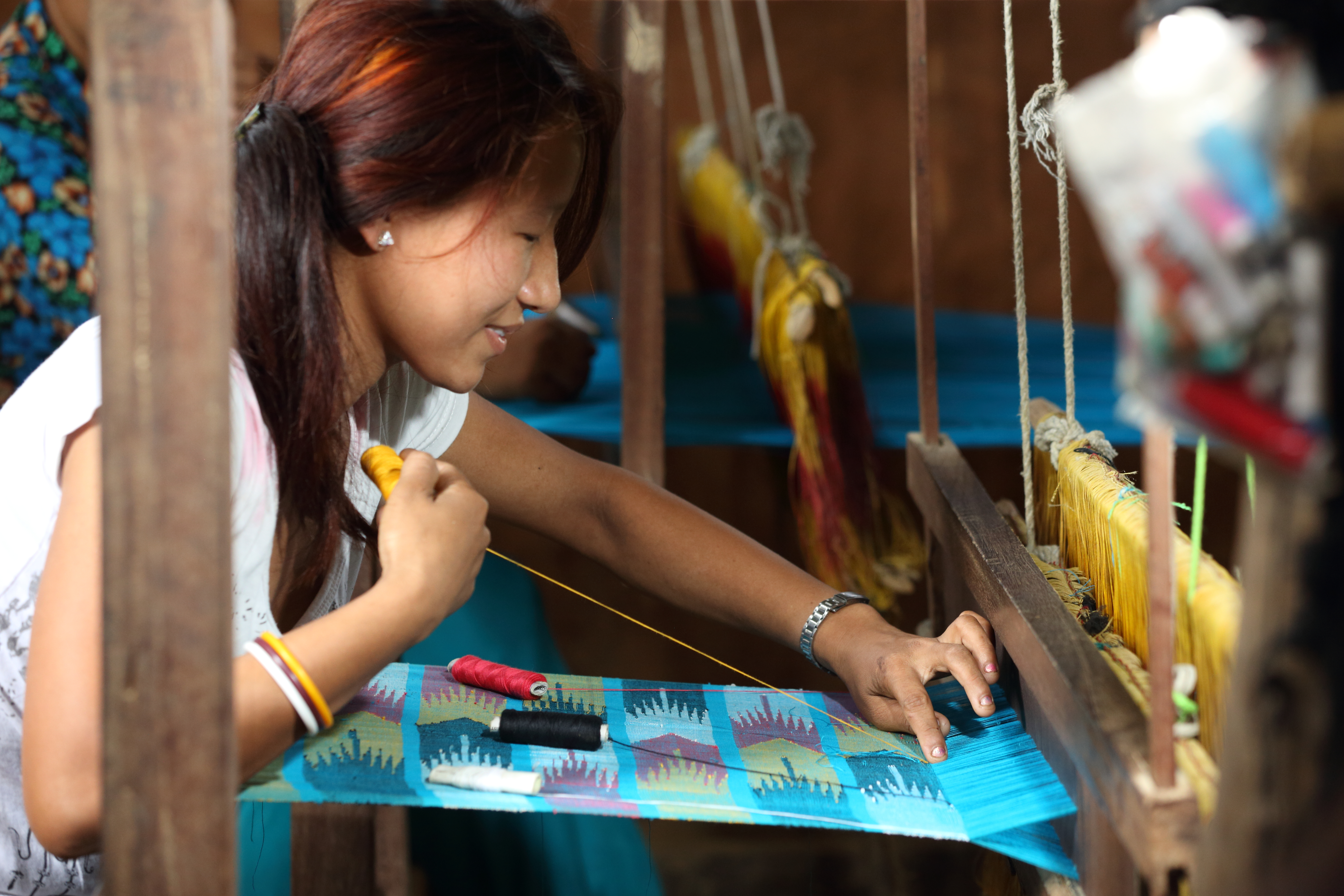 Kesu Magar weaving cloth at a MEDEP supported business, Triyuga Municipality, Bokse, Udayapur, NEPAL. Photo by Jim Holmes for AusAID. (13/2529)